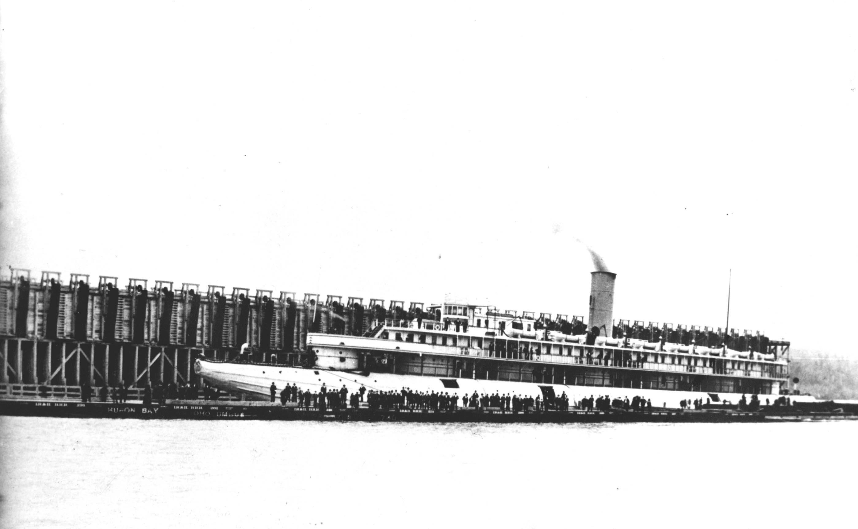 The ore dock built by the Iron Range and Huron Bay Railroad at Skanee. The vessel Christopher Columbus is docked. This image is taken from the Upper Peninsula Digitization Center Collections, and is believed to be in the public domain, as the original photograph was taken in 1893. Category:Whaleback ships